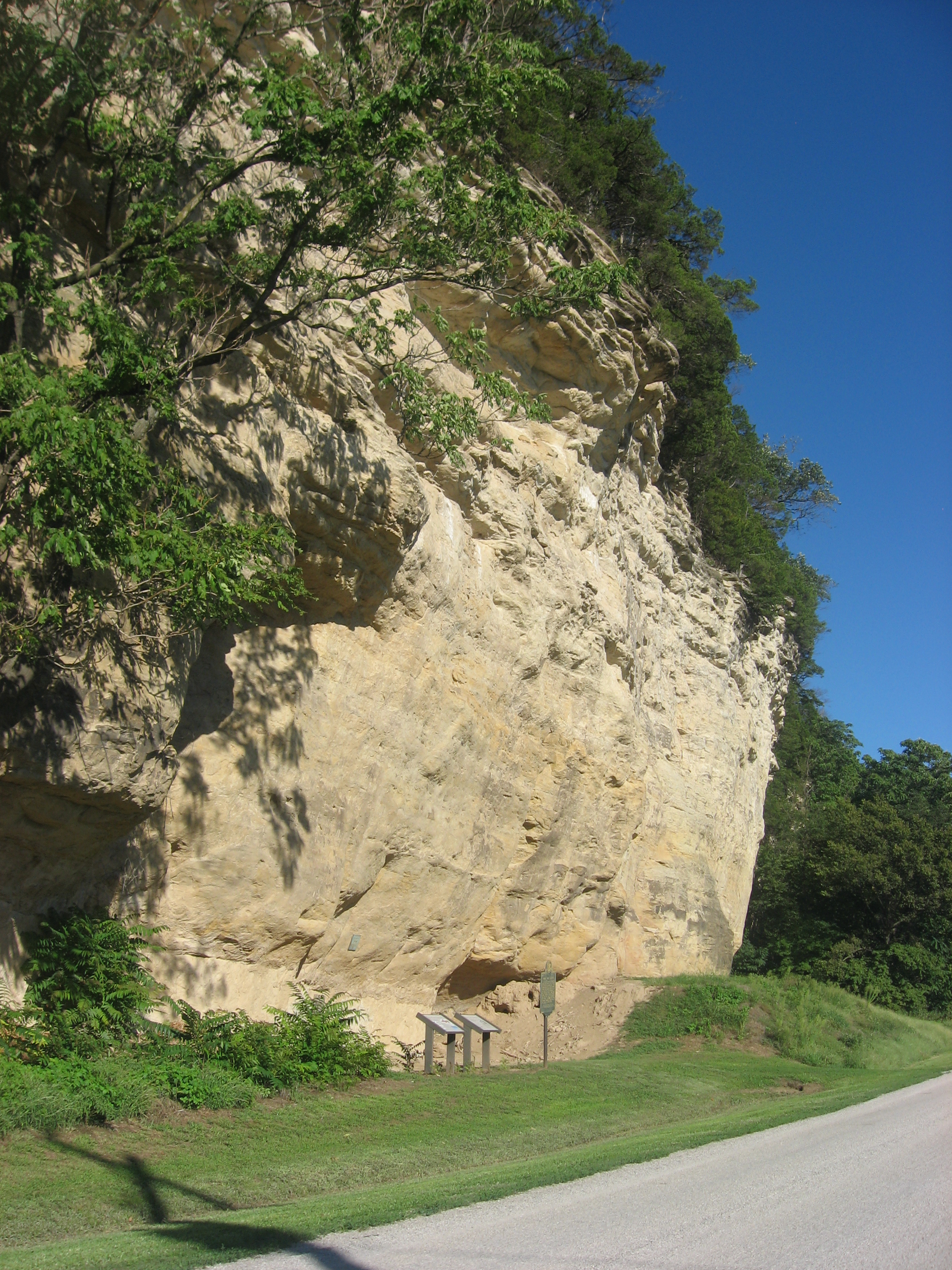 Historical markers at the Modoc Rock Shelter, located on the northeastern side of County Road 7 (Bluff Road) southeast of Prairie du Rocher in Randolph County, Illinois, United States. The rockshelter is a major archaeological site and has accordingly been designated a National Historic Landmark. It is also part of the French Colonial Historic District, a historic district that is listed on the National Register of Historic Places.